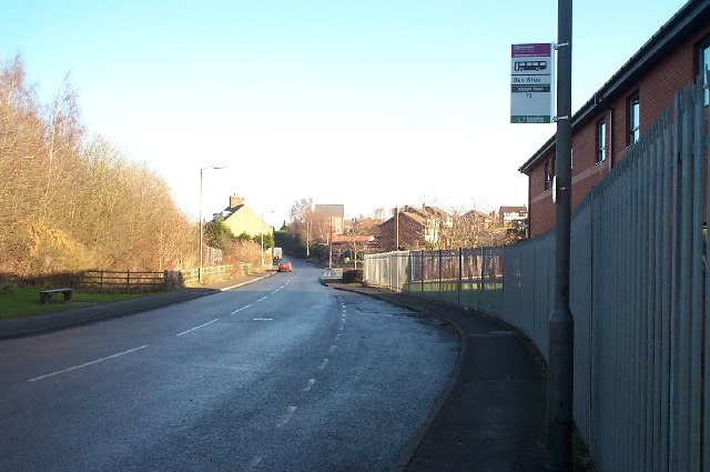 Bus Stop, Station Road, Clowne. Looking down Station Road towards Creswell Road, Clowne.